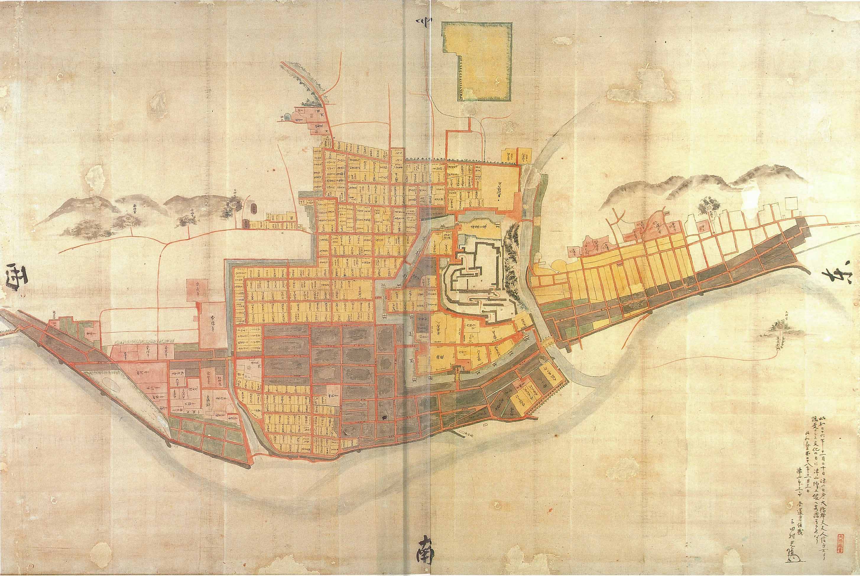 Map of the Jōkamachi Tsuyama, Japan, c. 1700